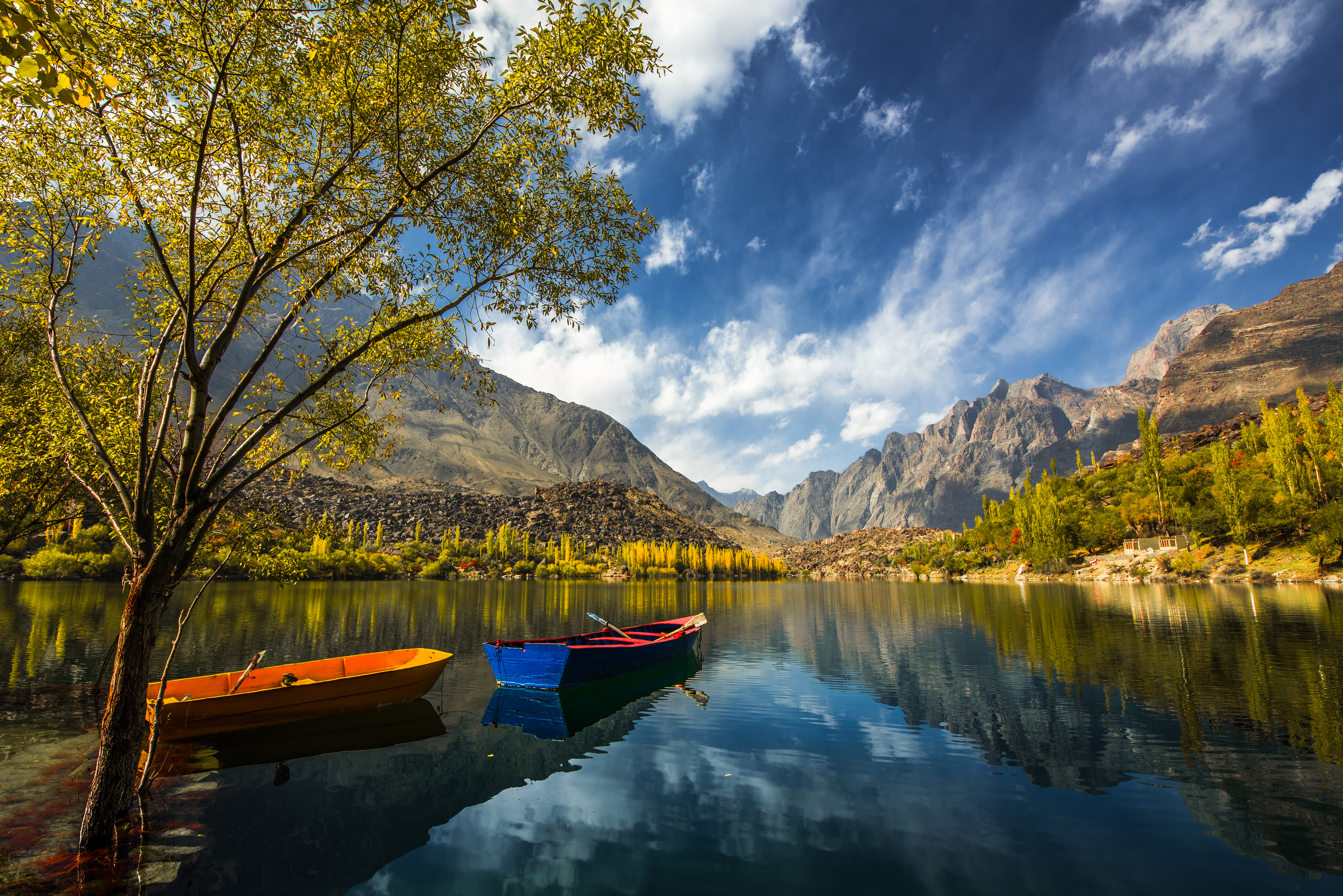 upper kachura lake, skardu, baltistan